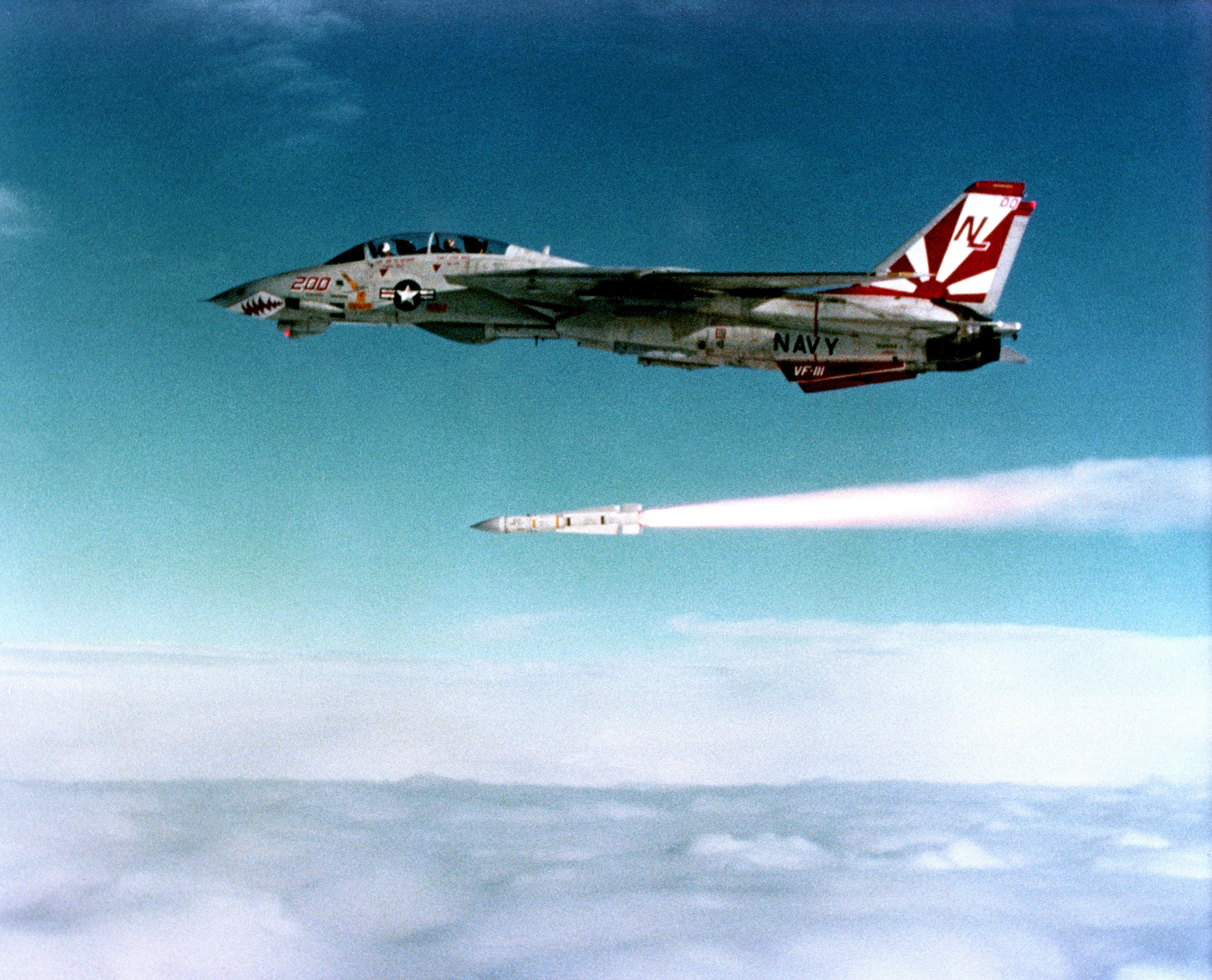 A U.S. Navy Grumman F-14A Tomcat from the fighter squadron VF-111 Sundowners launches an AIM-54C Phoenix long-range air to air missile in 1991. VF-111 was assigned to Carrier Air Wing 15 (CVW-15) aboard the aircraft carrier USS Carl Vinson (CVN-70).